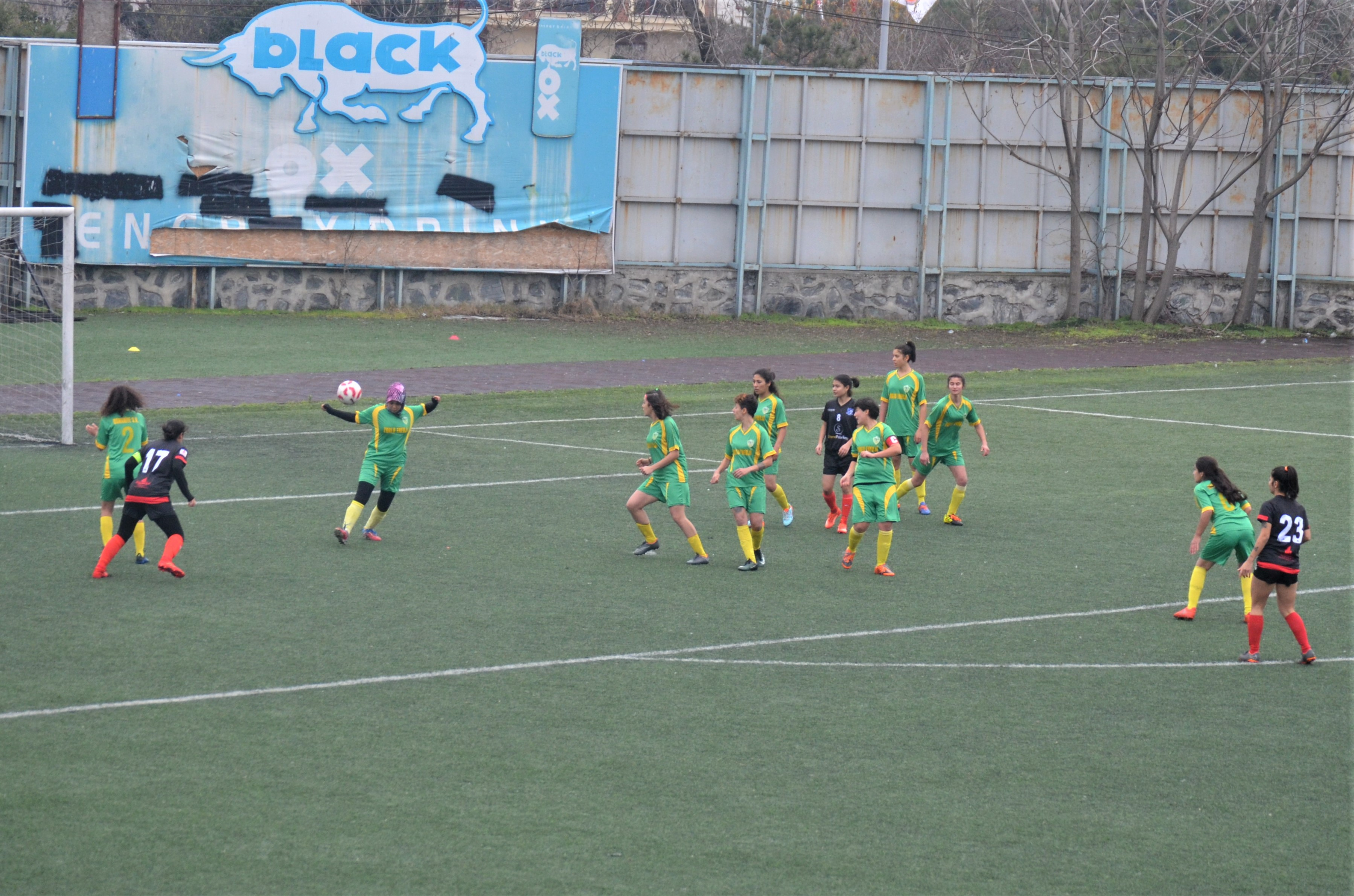 Akdeniz Nurçelik Spor (black/red) vs Osmaniye Kadın Spor (green/yellow) in the 2018-19 Turkish Women's Second League match at Küçükçekmece Metin Oktay Stadium.